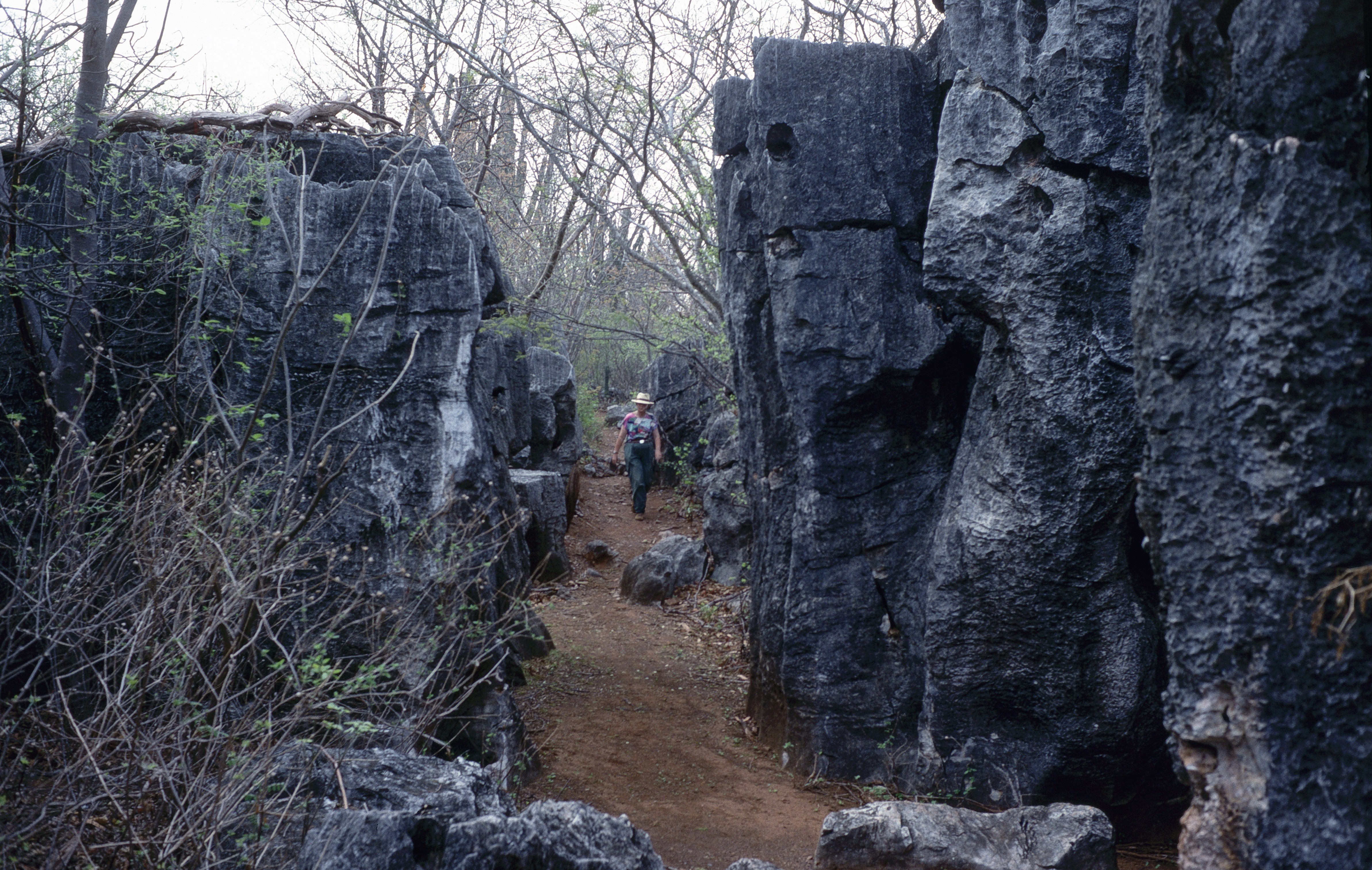 Guiengola, Oaxaca, Mexico: modern access